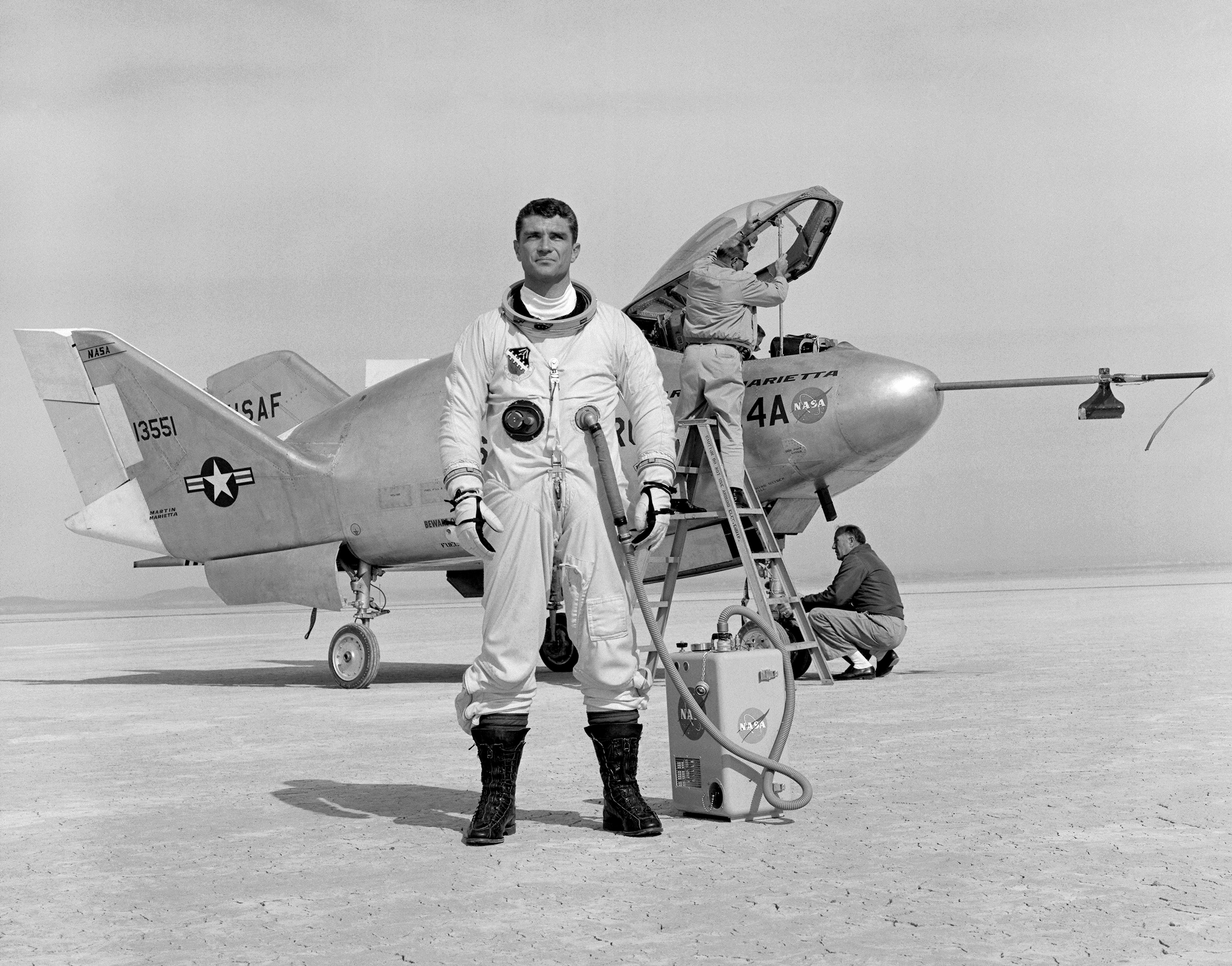 Air Force pilot Major Cecil Powell stands in front of the X-24A after a research flight. Built for the Air Force by Martin Marietta, the X-24A was a bulbous vehicle shaped like a tear drop, with three vertical fins at the rear for directional control. It weighed 6,270 pounds, was just over 24 feet long, and had a width of nearly 14 feet. The first unpowered glide flight of the X-24A was on April 17, 1969. The pilot was Air Force Major Jerauld Gentry. Gentry also piloted the vehicle on its first powered flight March 19, 1970. It was flown 28 times in a program which, like the HL-10, helped validate the concept that a space shuttle vehicle could be landed unpowered. Fastest speed in the X-24A was l,036 mph (Mach 1.6). The pilot was John Manke, who also reached the highest altitude in the vehicle, 71,400 feet. He was also the pilot on its final flight June 4, 1971. The X-24A was later modified with a different nose configuration and became the X-24B.